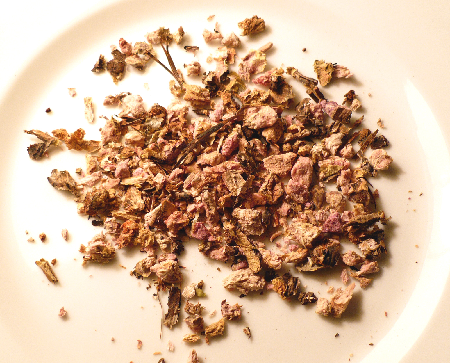 Organic dried Rhodiola rosea root. Photo taken in Kent, Ohio with a Panasonic Lumix digital camera (model DMC-LS75). Organic Rhodiola rosea root (produced in China) purchased from Mountain Rose Herbs of Eugene, Oregon, United States.